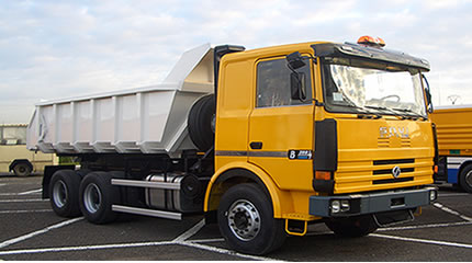 M 230 6x6 Plateau is an Algerian truck made by SNVI